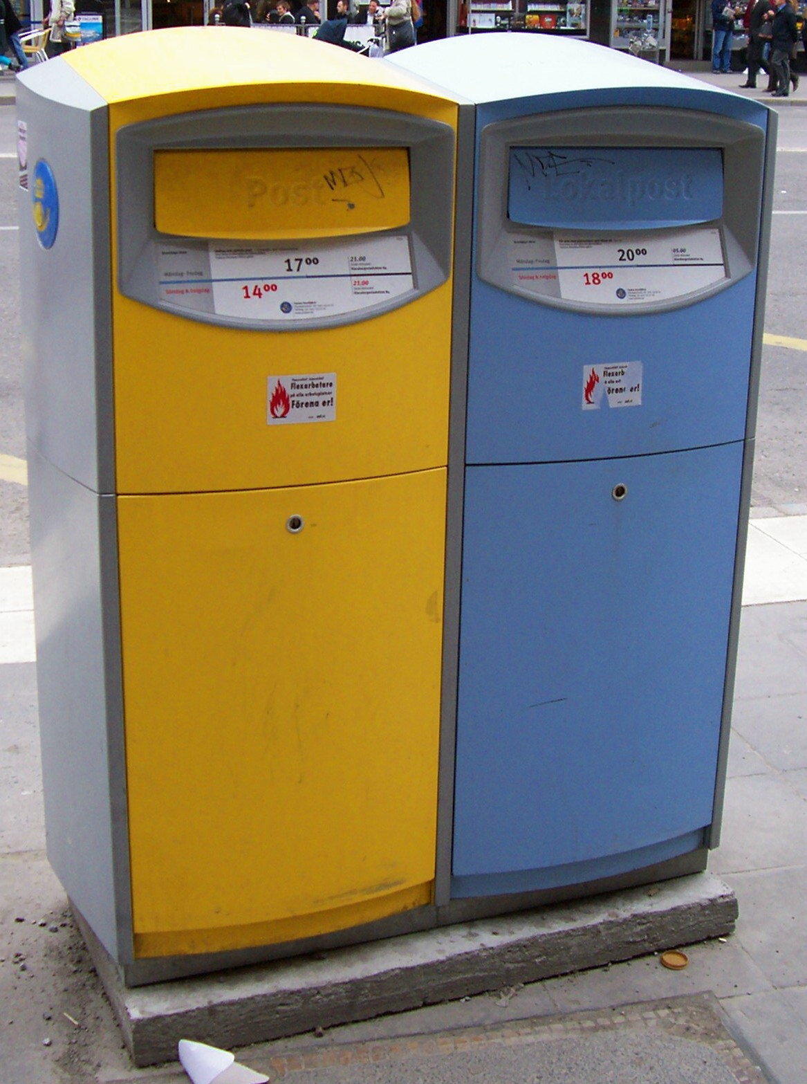 Mailboxes in Stockholm, Sweden